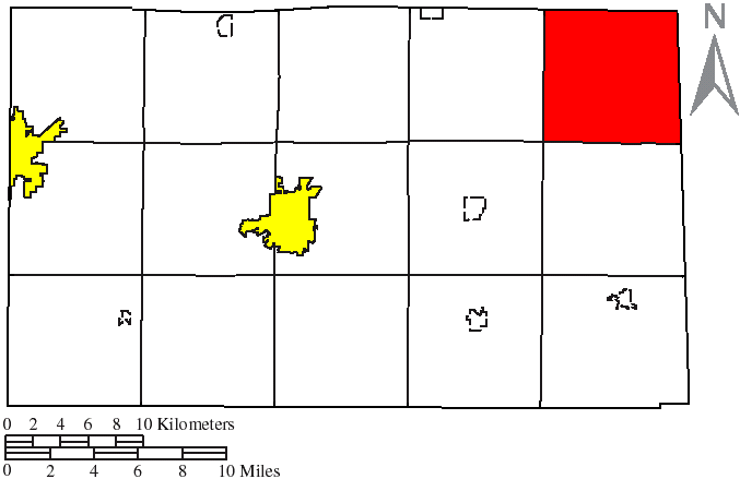 Made by the US Census and modified by myself